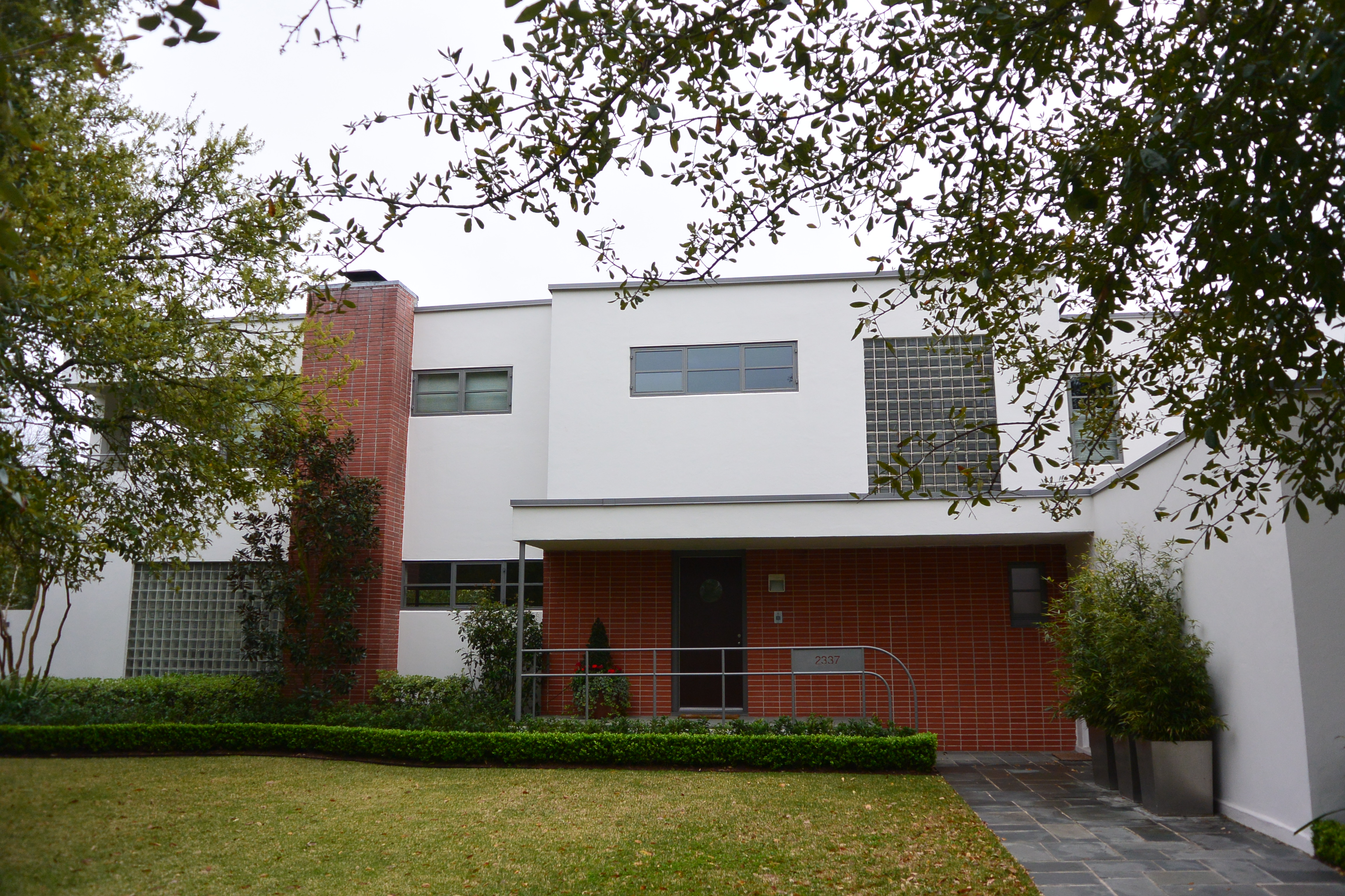 Architects L. M. Wirtz and Harold Calhoun designed this early example of modern architecture at 2337 Blue Bonnet Blvd. in 1937. (Allen House)